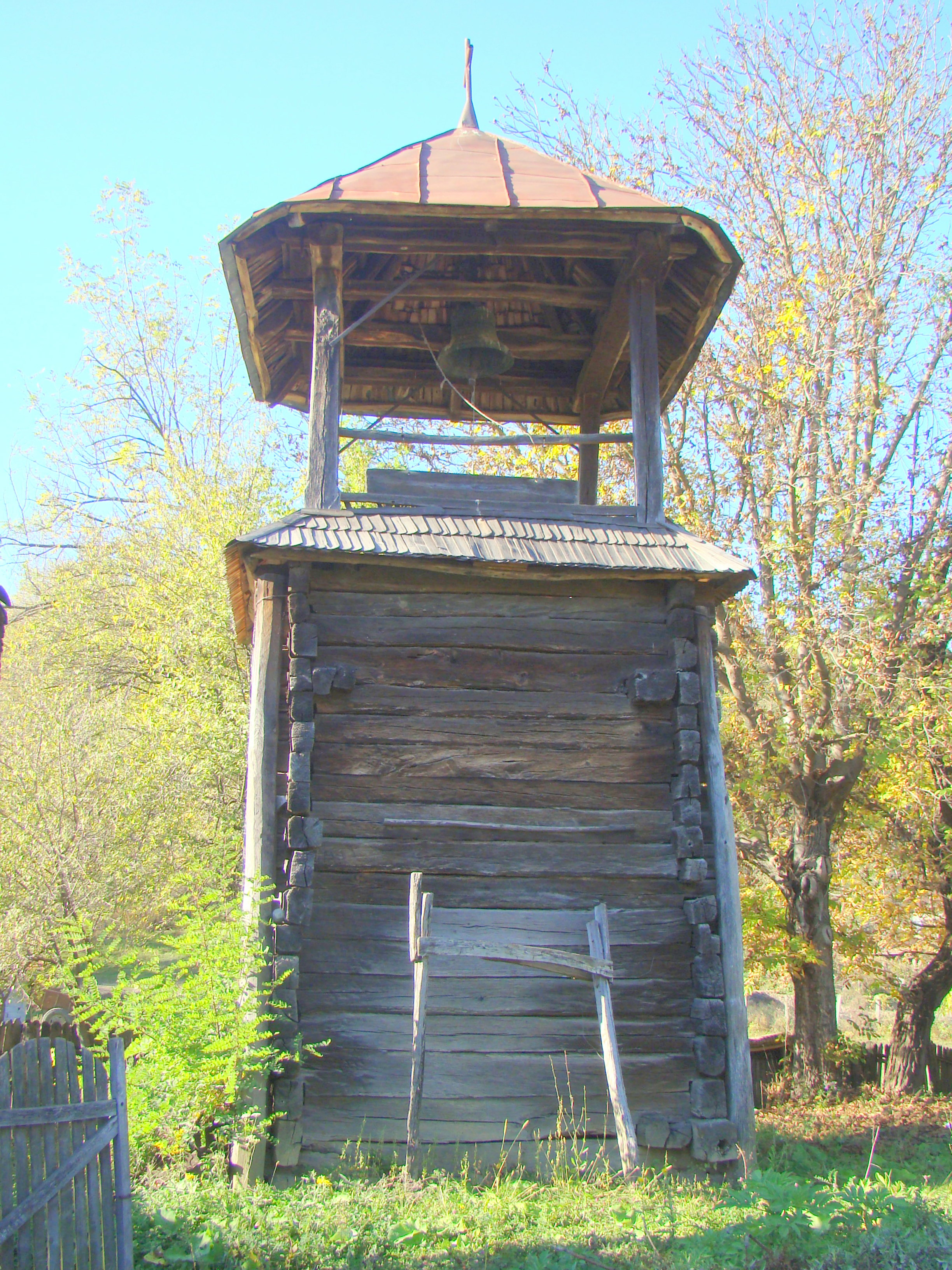 Wooden church in Sura, Gorj county, Romania